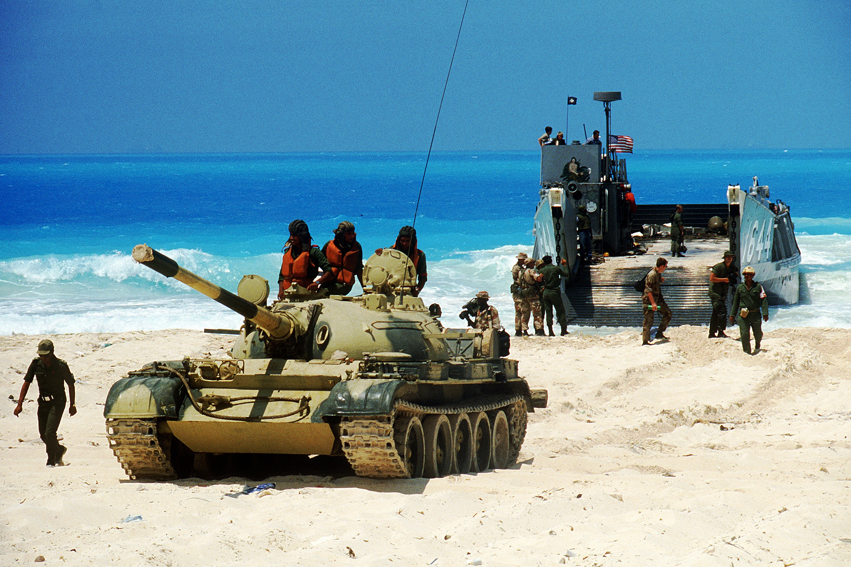 An Egyptian T-55 tank comes ashore from the utility landing craft 1644 (LCU-1644) during an amphibious assault in support of the multinational joint service Exercise Operation Bright Star. Location: Alexandria.